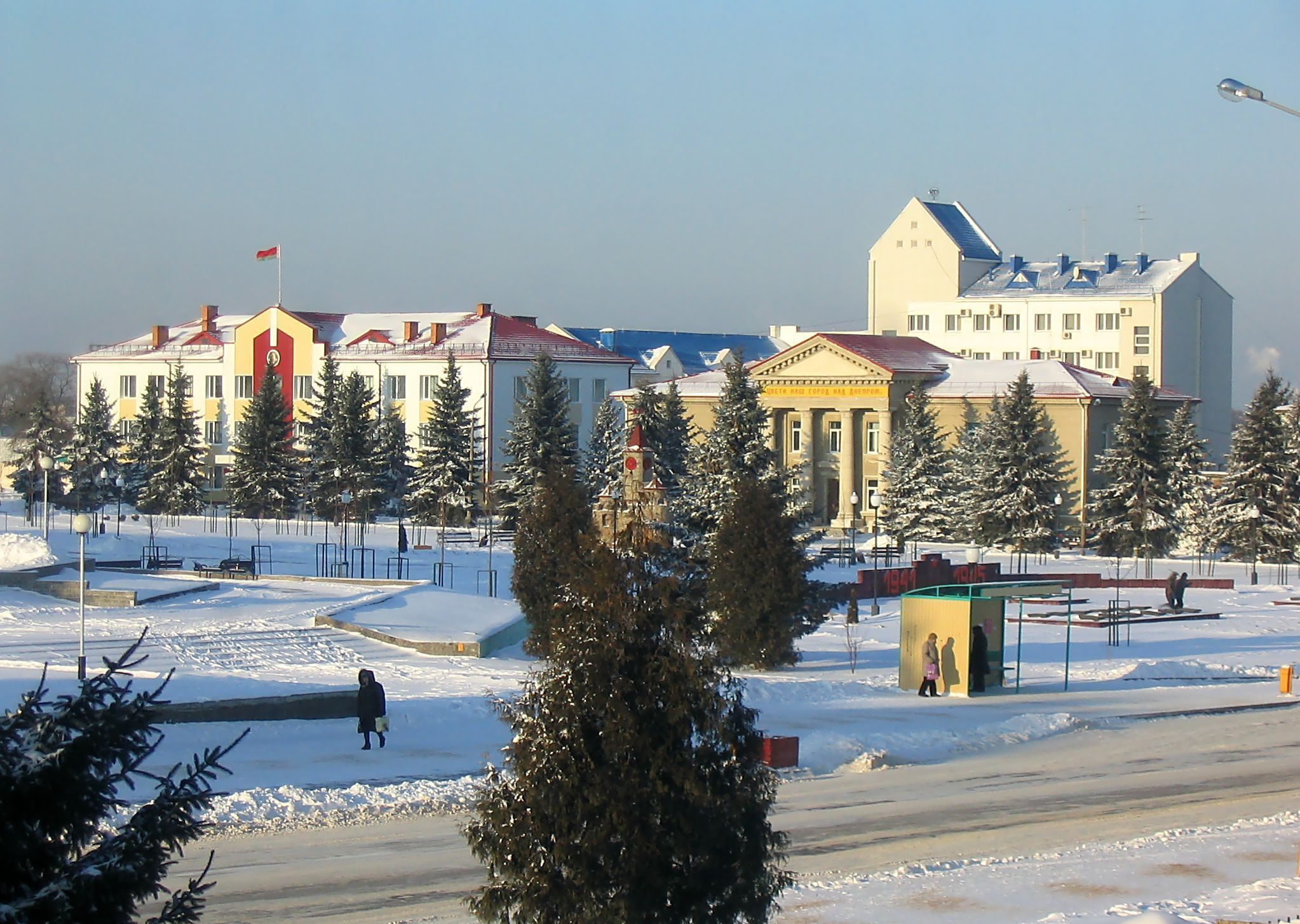 Rechytsa, Belarus - October Square in winter